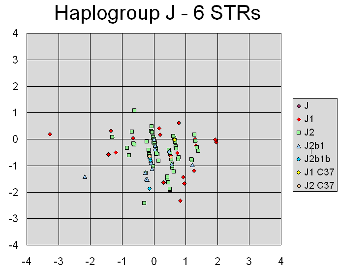 Principal Component Analysis plot for 354 Y-chromosome haplotypes from the public Ysearch database, identified as belonging to Y-DNA Haplogroup J and its subgroups. Data represent first and second most significant components calculated from 6 Y-STR markers. Unlike the corresponding image obtained using 37 STR markers, with only six markers the different J1, J2 and J2b subhaplogroups are not well resolved.